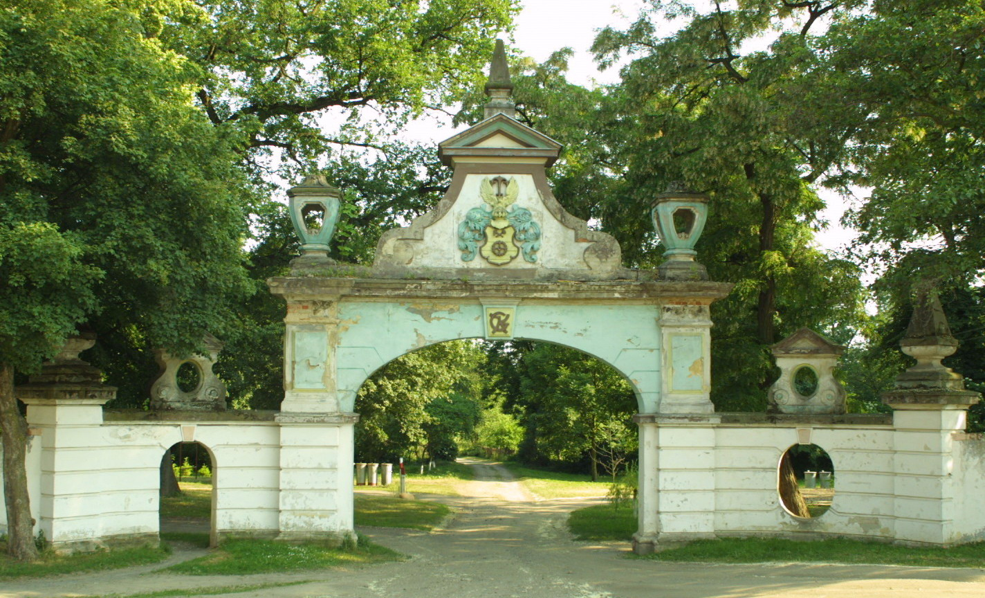 Park Gate at Chwalimierz, Poland.